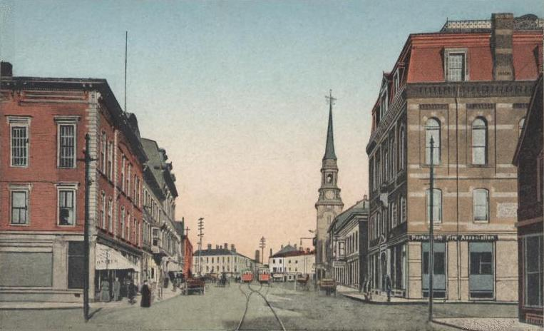 Congress Street, Portsmouth, NH; from a c. 1906 postcard. This shows the North Church, built in 1854 at Market Square to replace the meeting house built in 1713.